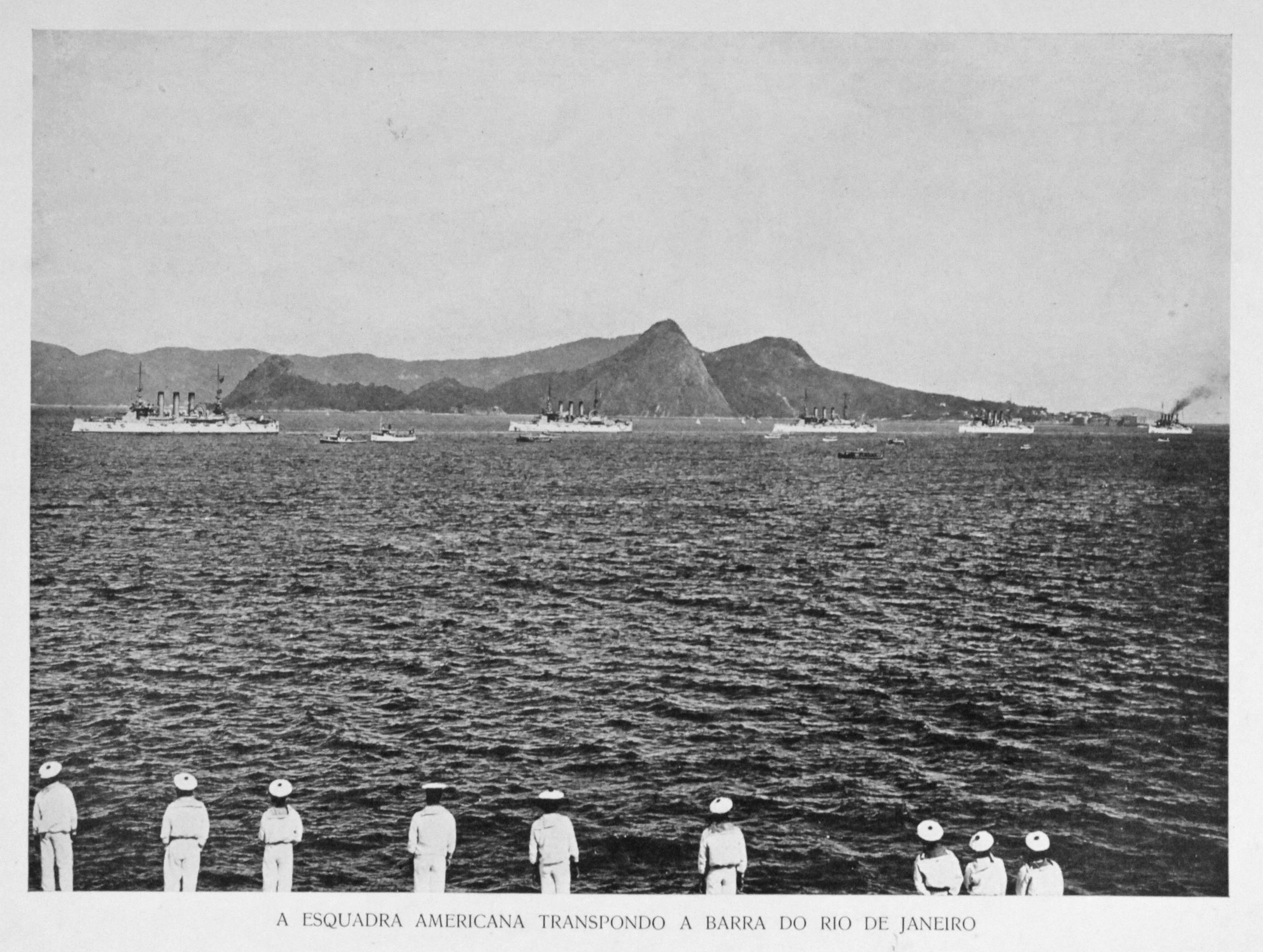 January 12, 1908 - Arrival at Rio de Janeiro - Fleet enters Guanabara Bay - Three Brazilian warships join the Great White Fleet, as escort to Rio de Janeiro.